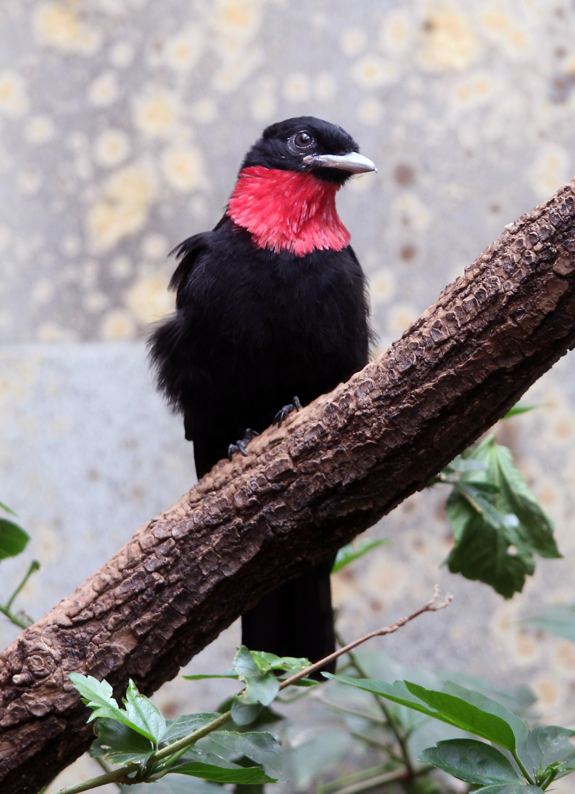 Purple-throated fruitcrow (Querula purpurata), Wuppertal Zoo